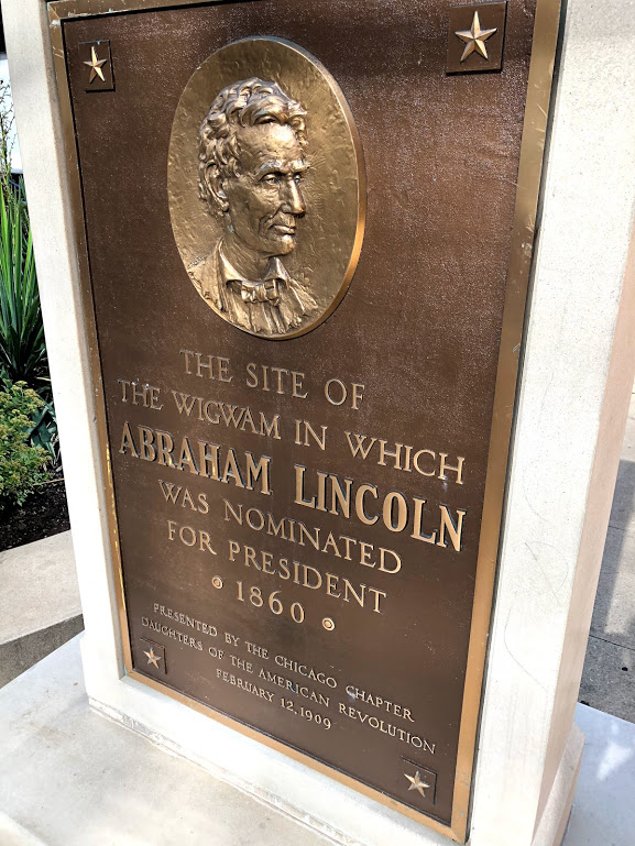 Plaque marking the spot of the Wigwam in Chicago, site of the 1860 Republican Convention